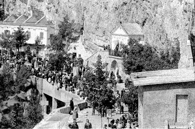 procession to the sanctuary, Vallepietra, Lazio, Italy